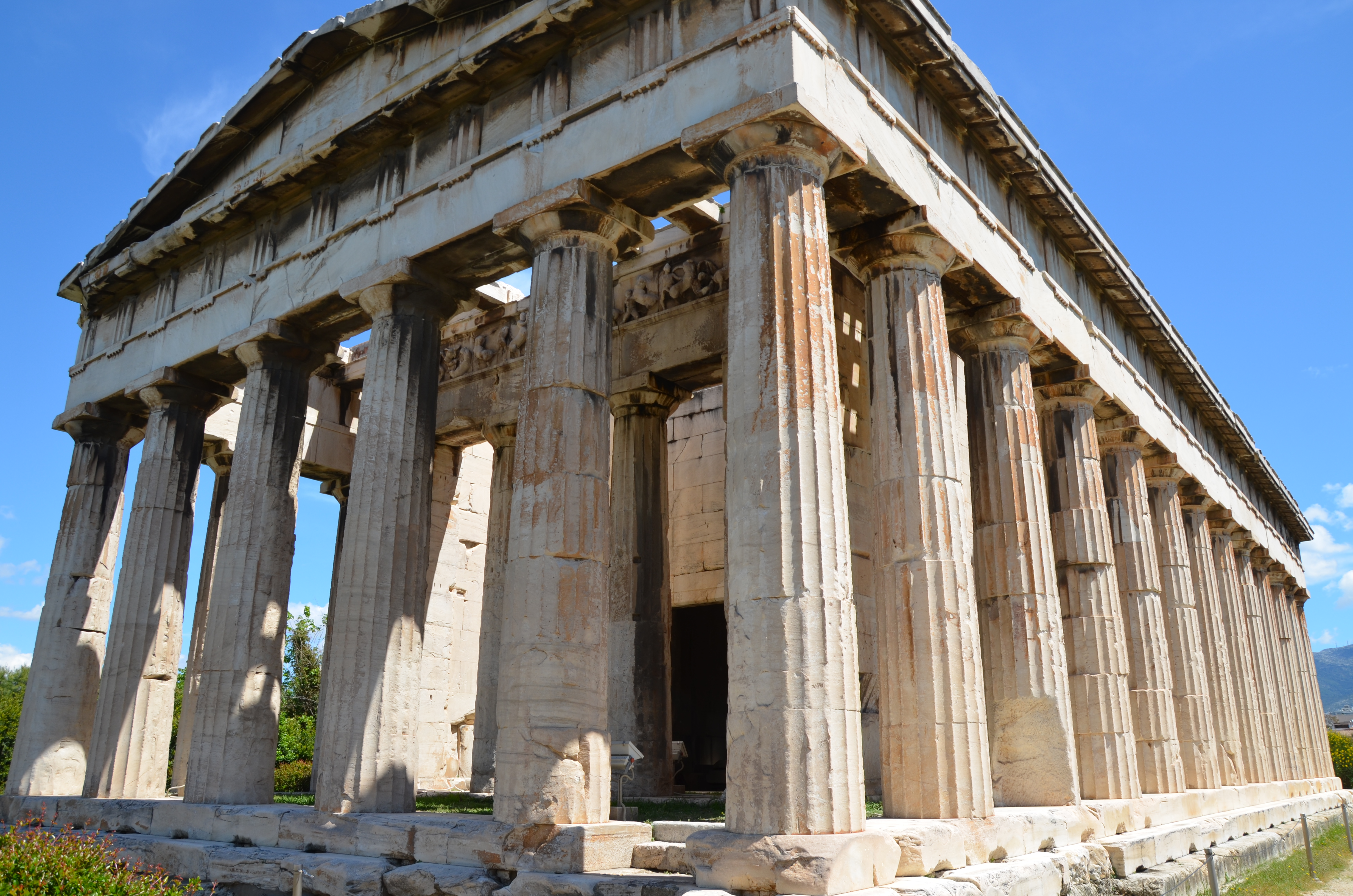 Temple of Hephaestus and Athena, built in 449 BC, Athens